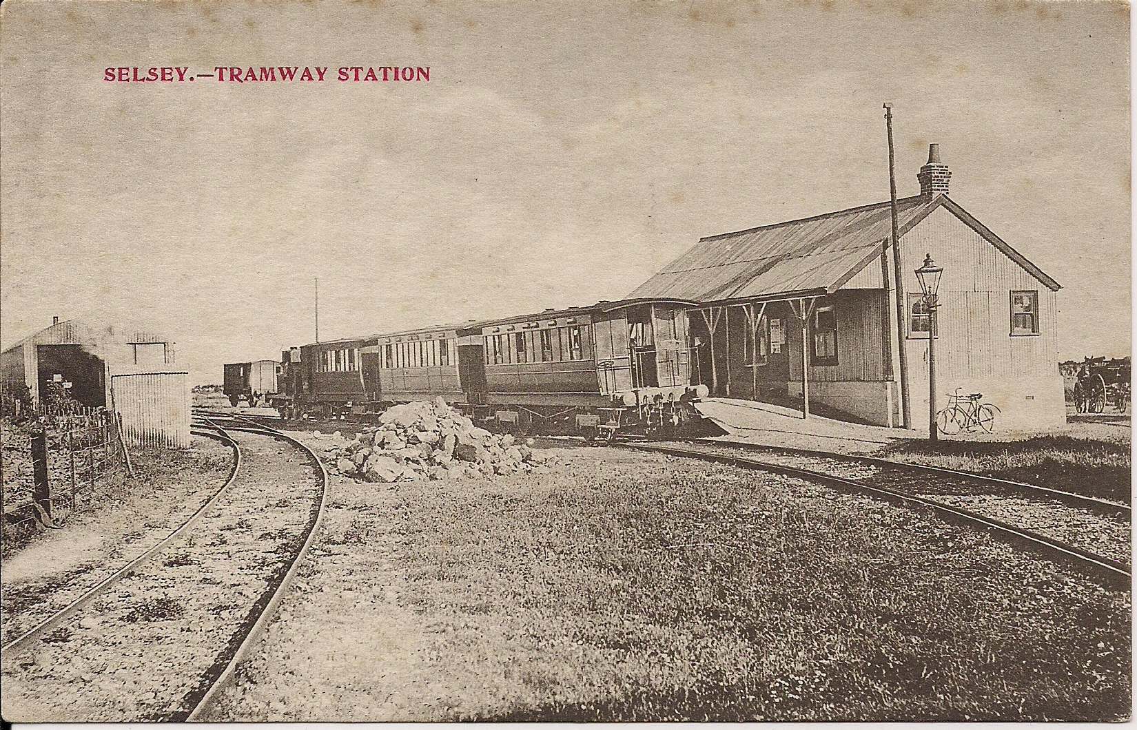 Selsey tram station on the West Sussex Railway